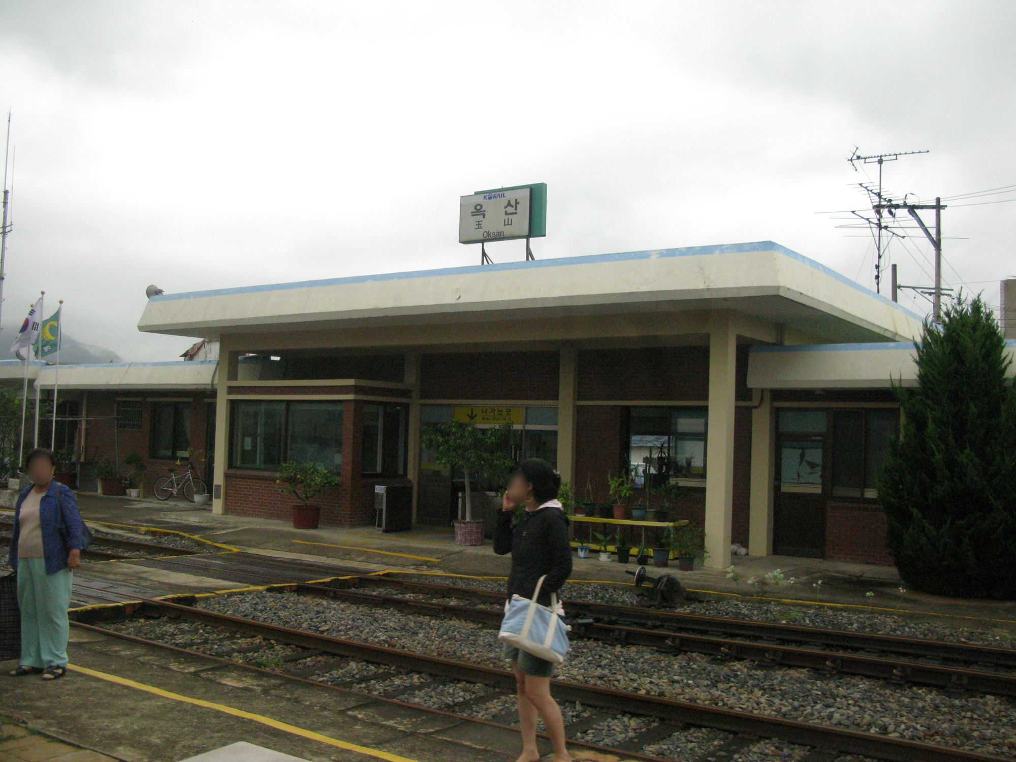 Gyeongbuk Line Oksan Station